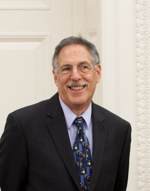 Peter Diamond, 2010 Nobel Laureate in Economics, in the Oval Office, Nov. 30, 2010. (Official White House Photo by Pete Souza) This official White House photograph is in the public domain from a copyright perspective, so while restrictions such as personality or privacy rights may apply, in general, manipulations are allowed.